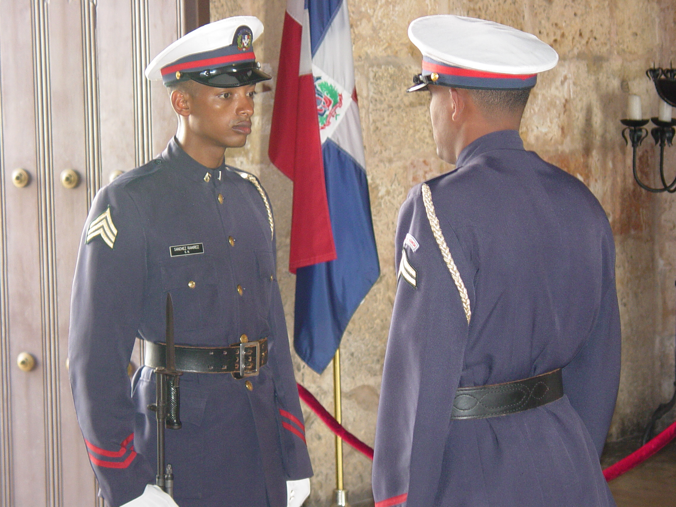 Ceremonial Guards - Santo Domingo - Dominican Republic